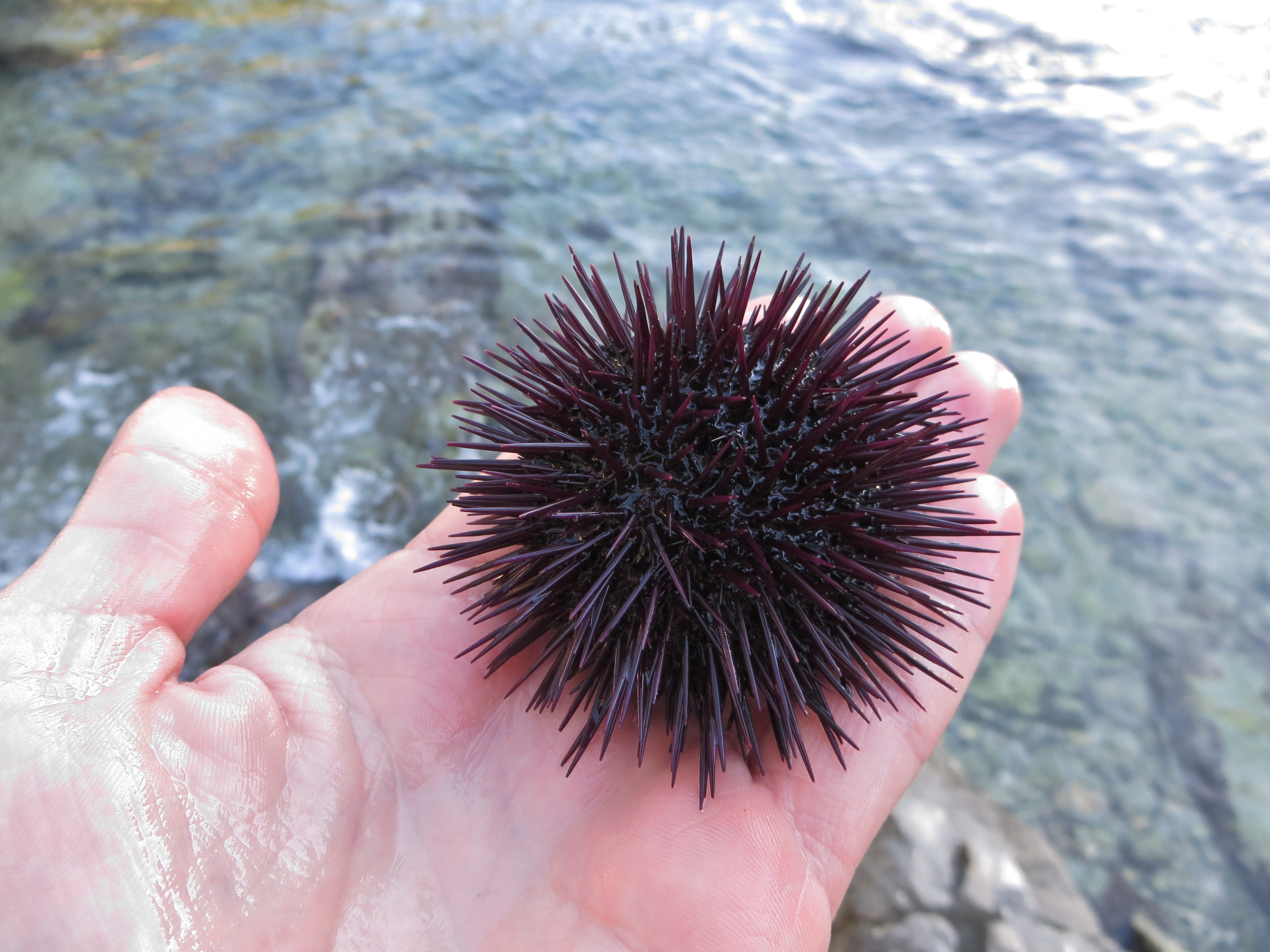 Mediterranean edible sea urchin (Paracentrotus lividus) hold in hand near Marseille, France.